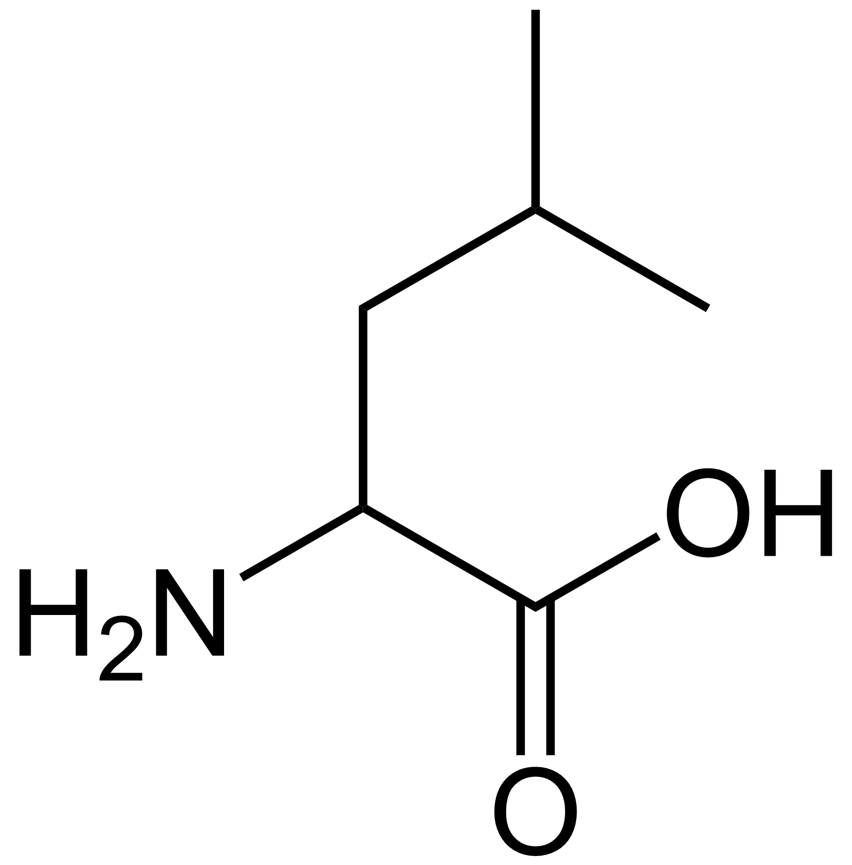 Amino acid leucine, simplified formula (i.e. without stereochemistry)